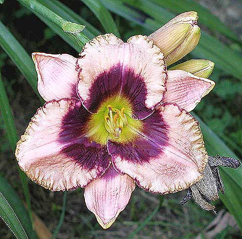 Daring Deception